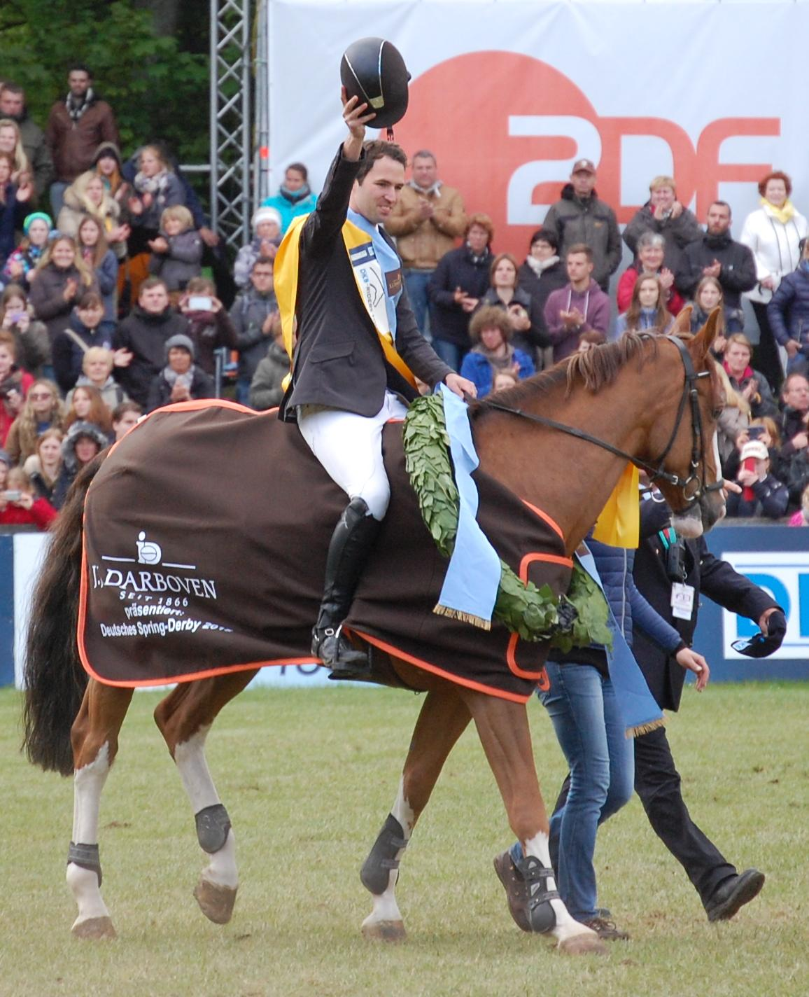 German rider Christian Glienewinkel, winner of the 86th German show jumping derby, Hamburg 2015.